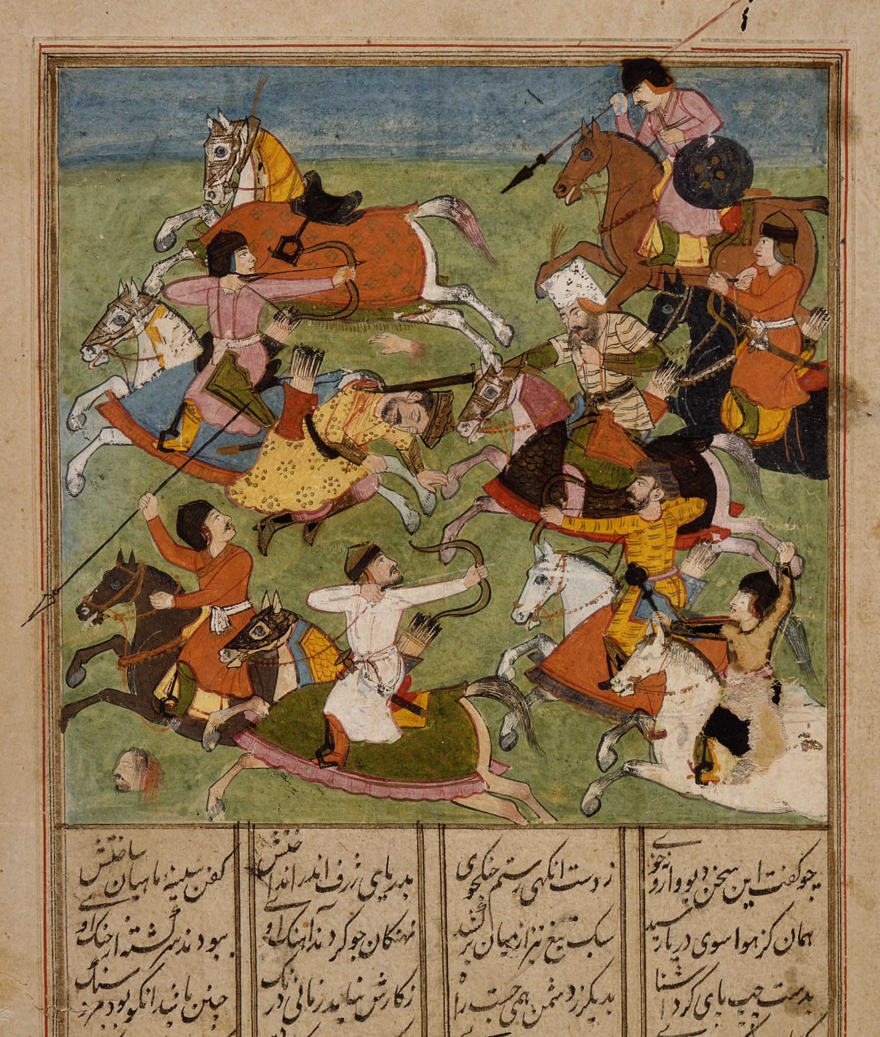 India, Delhi, Mughal, early 17th century Manuscripts Opaque watercolor, gold, silver, and ink on paper Sheet: 9 7/8 x 6 3/8 in. (25.08 x 16.19 cm); Image: 4 1/4 x 4 3/8 in. (10.8 x 11.11 cm) Gift of Constance Harris (AC1993.187.1) South and Southeast Asian Art